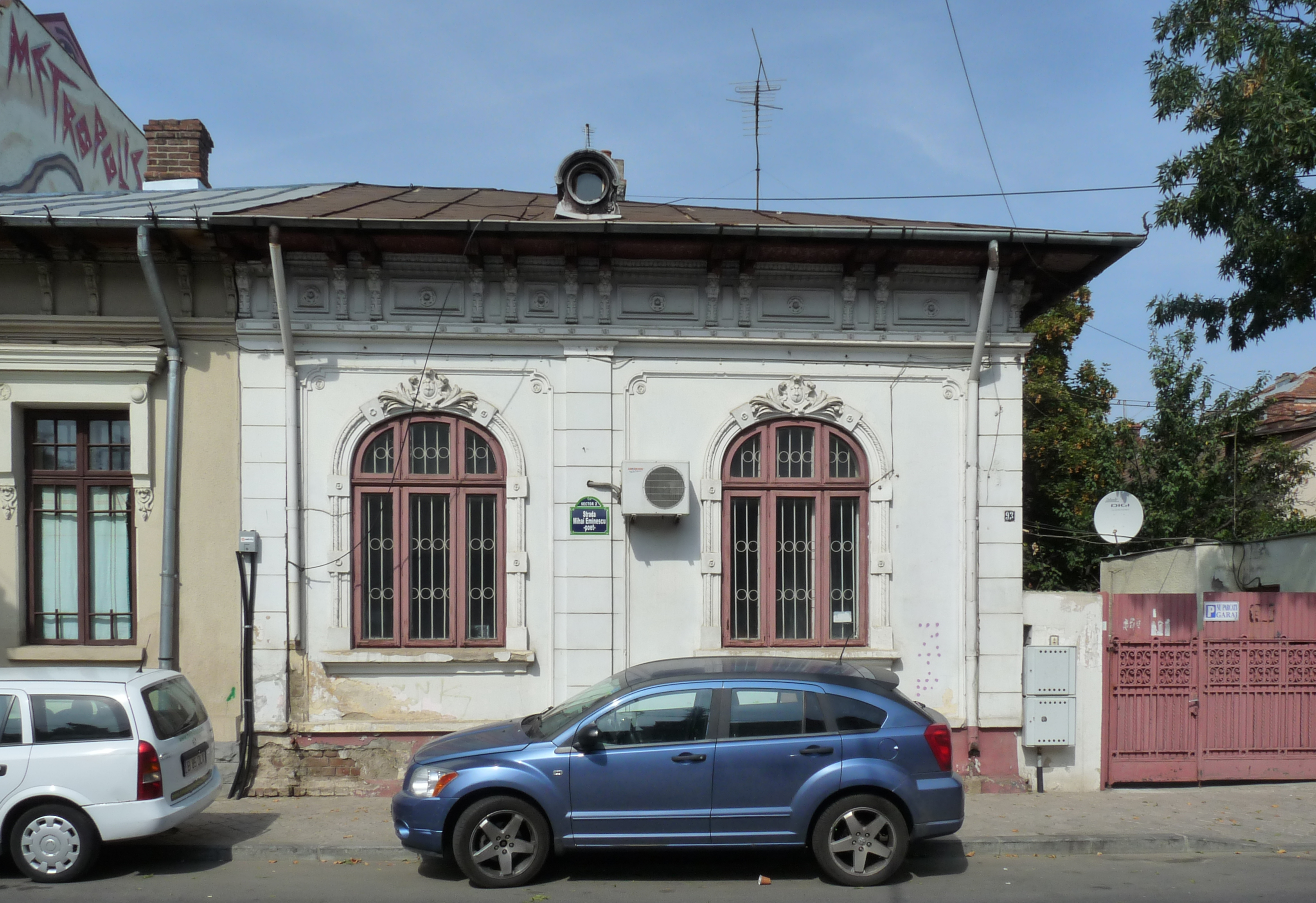 Historic building in Bucharest, Romania, at Eminescu street 93Română: Clădire istorică din București, România, în strada Mihai Eminescu, nr. 93